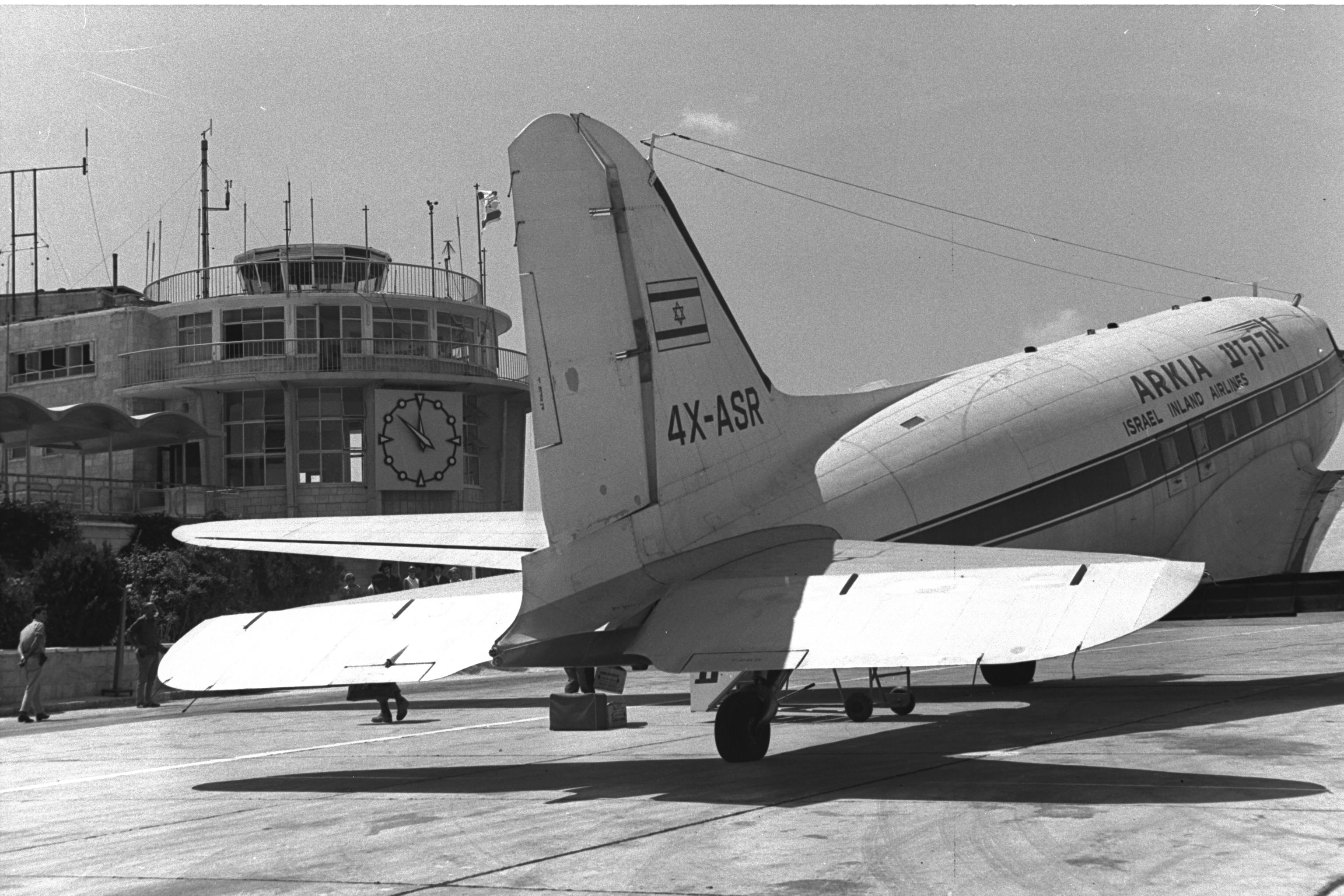 AN ARKIA PASSENGER PLANE FROM TEL AVIV, AFTER ITS LANDING IN FRONT OF THE JERUSALEM AIRPORT TERMINAL AT ATAROT.